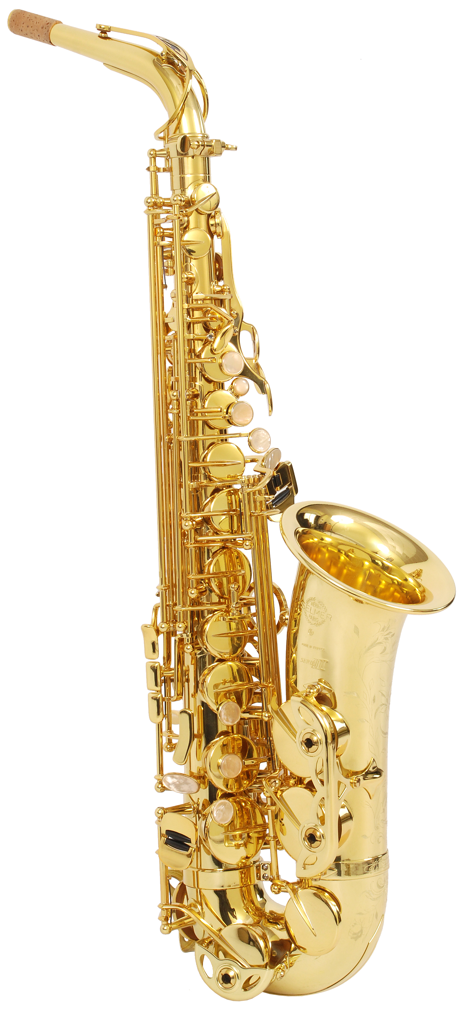 Alto saxophone by Henri Selmer Paris, series III, GP.